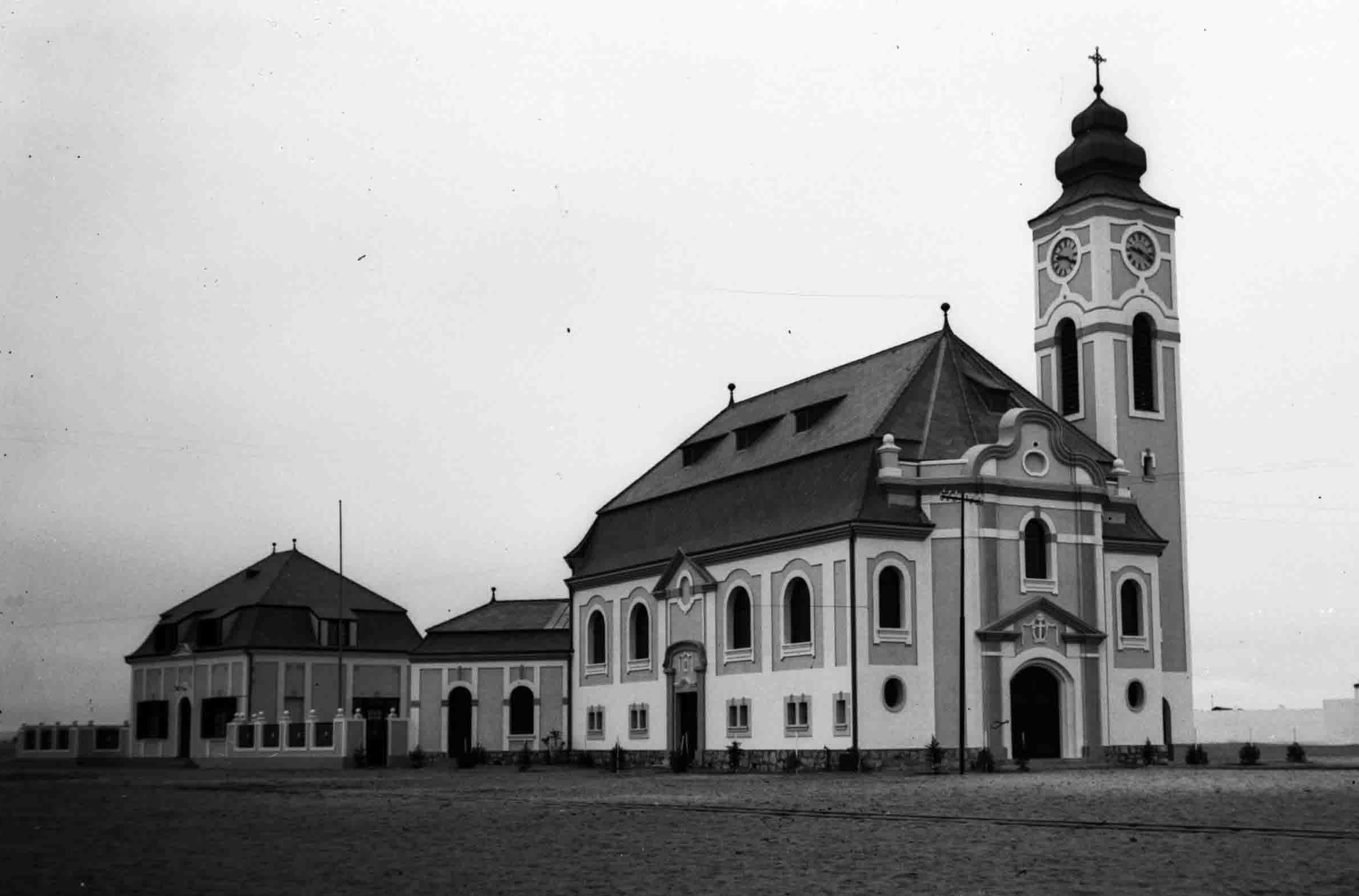 Lutheran Church in Swakopmund, Namibia; build in 1911